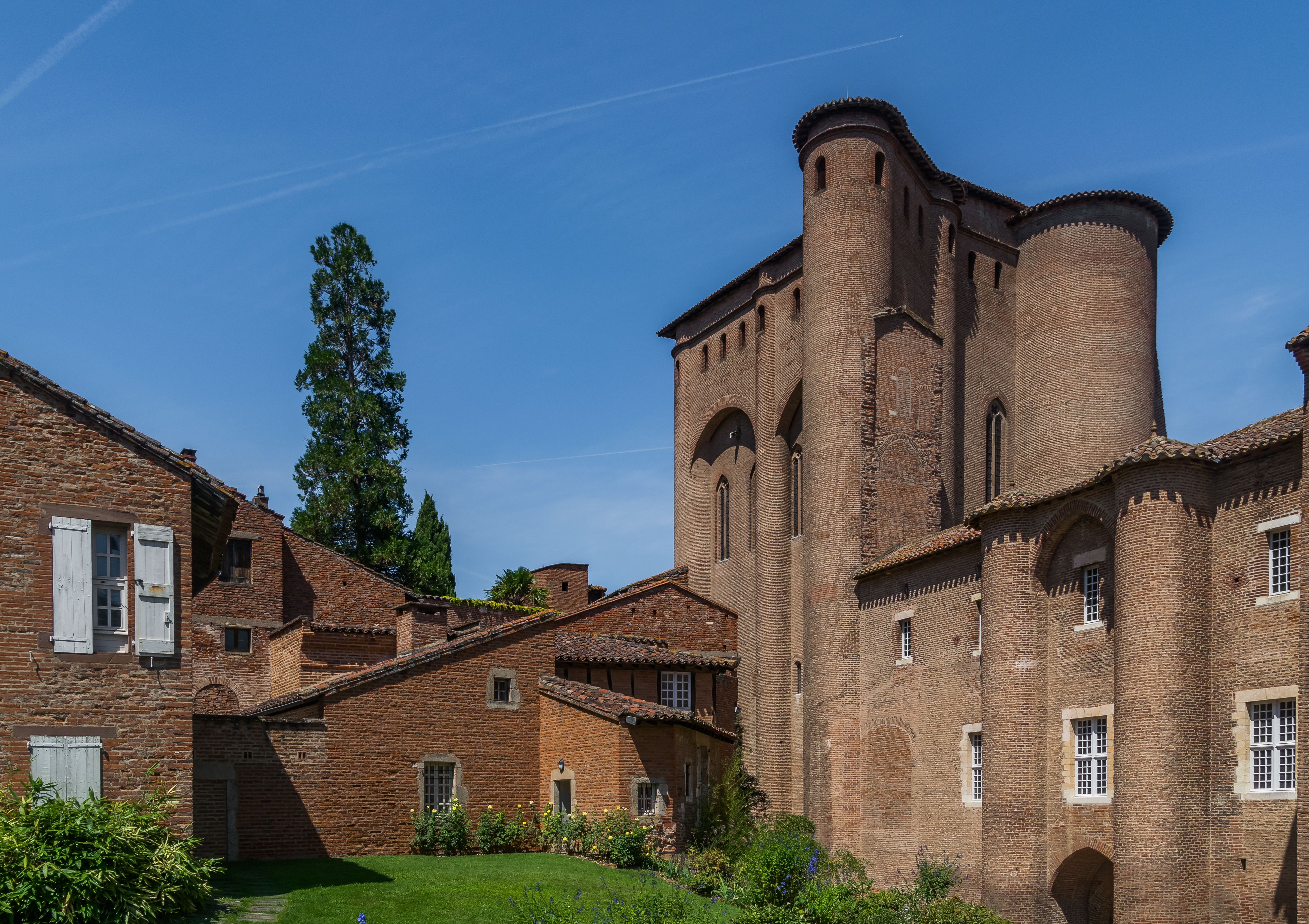 Palais de la Berbie in Albi, Tarn, France This place is a UNESCO World Heritage Site, listed as Cité épiscopale d'Albi.